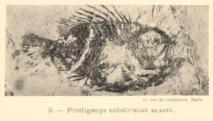 Holotype of Pristigenys substriata. MNHN.F.BOL529 Note Eastman captioned it Pristigenys substriatus.